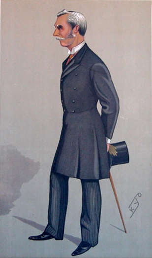 A caricature of Sir Cecil Clementi Smith, G.C.M.G., a British colonial administrator and Governor of the Straits Settlements from 1887 to 1893.